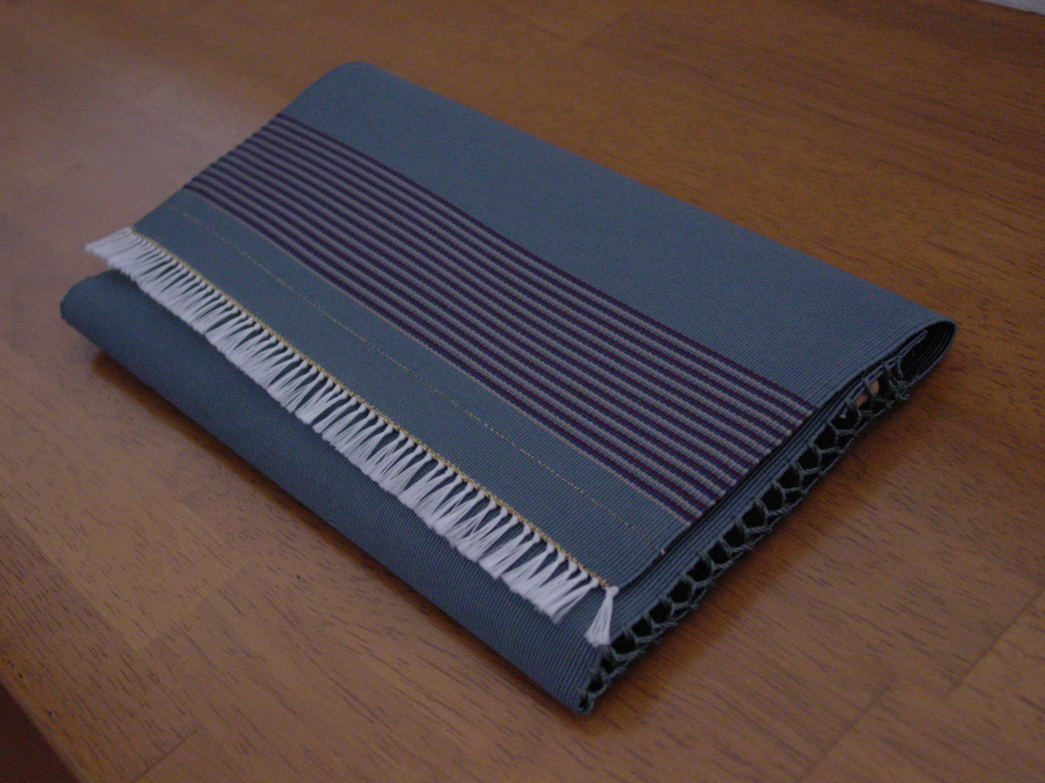 A men's fukusabasami, a kind of wallet which carries items needed for a tea ceremony.